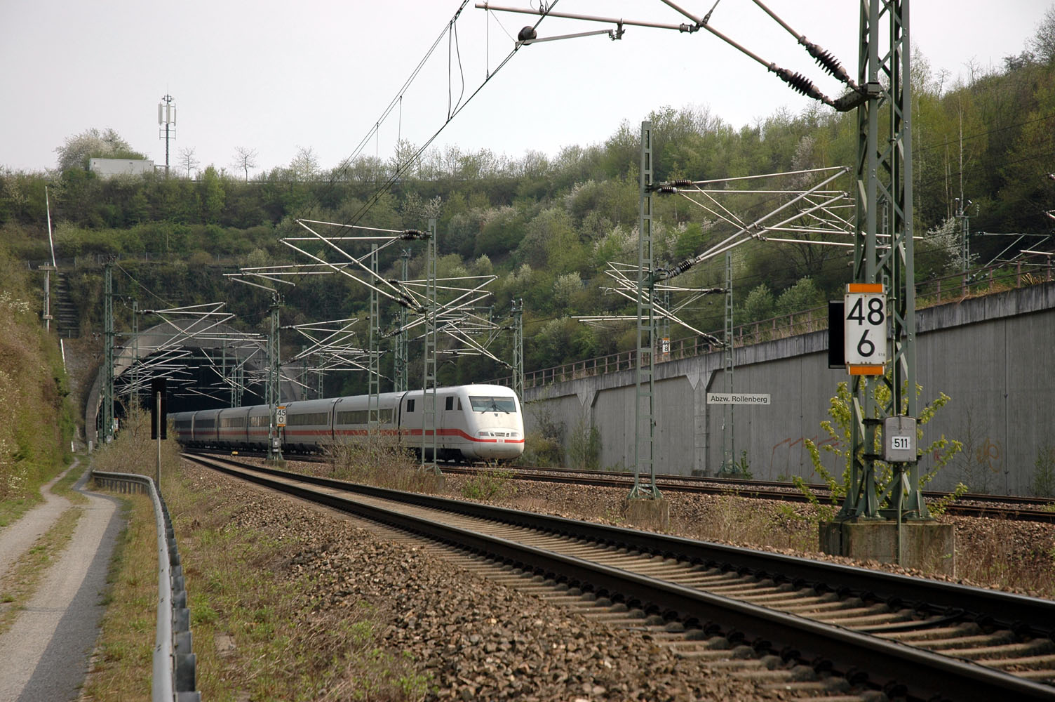 An ICE 1 high-speed train enters the north-western portal of the Rollenberg Tunnel, headed for Stuttgart.